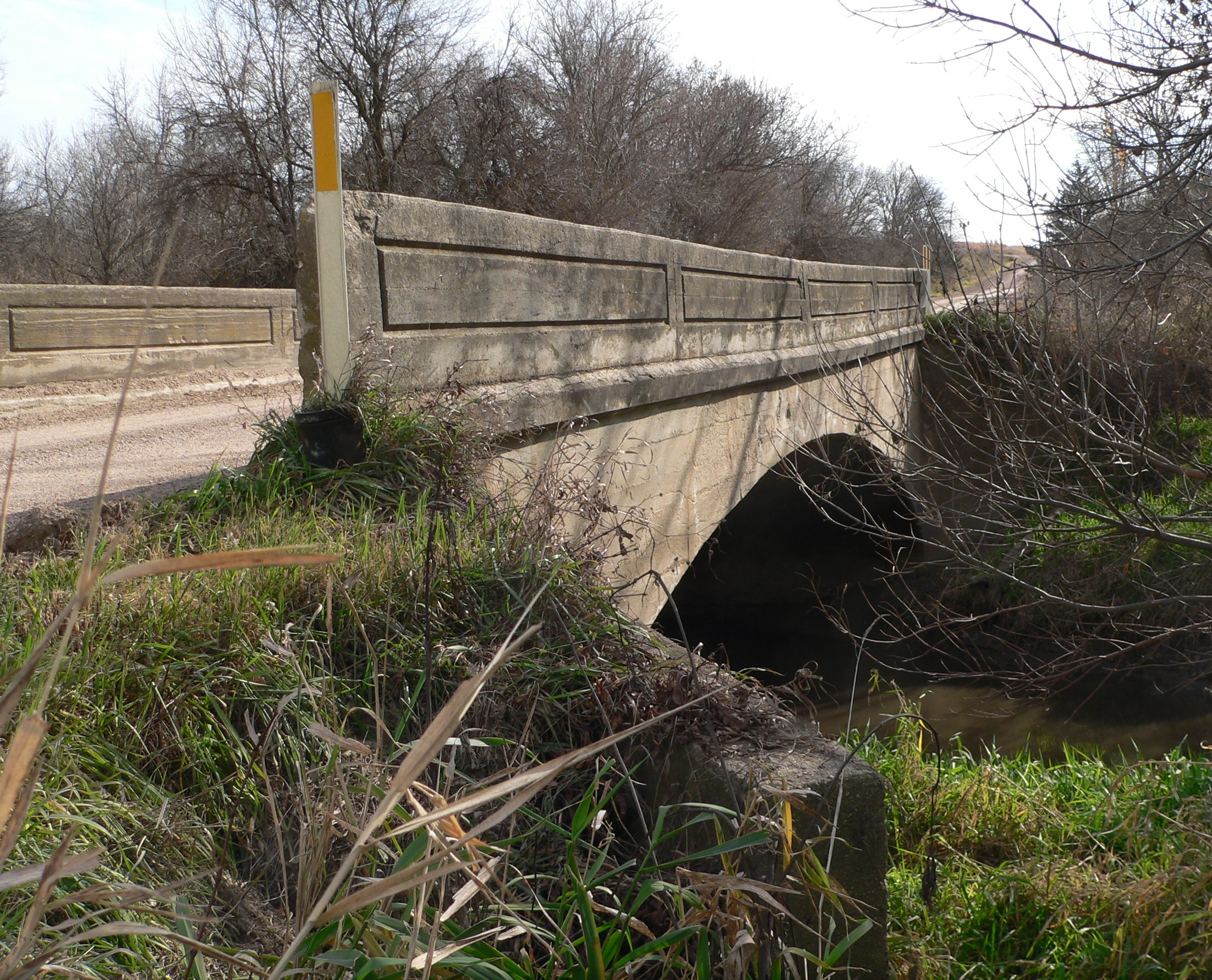 Deering Bridge, near Sutton, Nebraska; seen from the northwest (upstream). The bridge is located on the county line between Clay and Fillmore counties, where the county-line road crosses School Creek. The concrete spandrel arch bridge was built in 1916 by the Nebraska Bureau of Roads & Bridges and the Lincoln Construction Co. It is listed on the National Register of Historic Places.